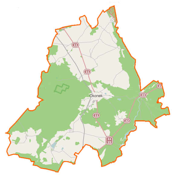 Map of Gmina Okonek, Poland This map of Okonek (gmina) was created from OpenStreetMap project data, collected by the community. This map may be incomplete, and may contain errors. Don't rely solely on it for navigation.